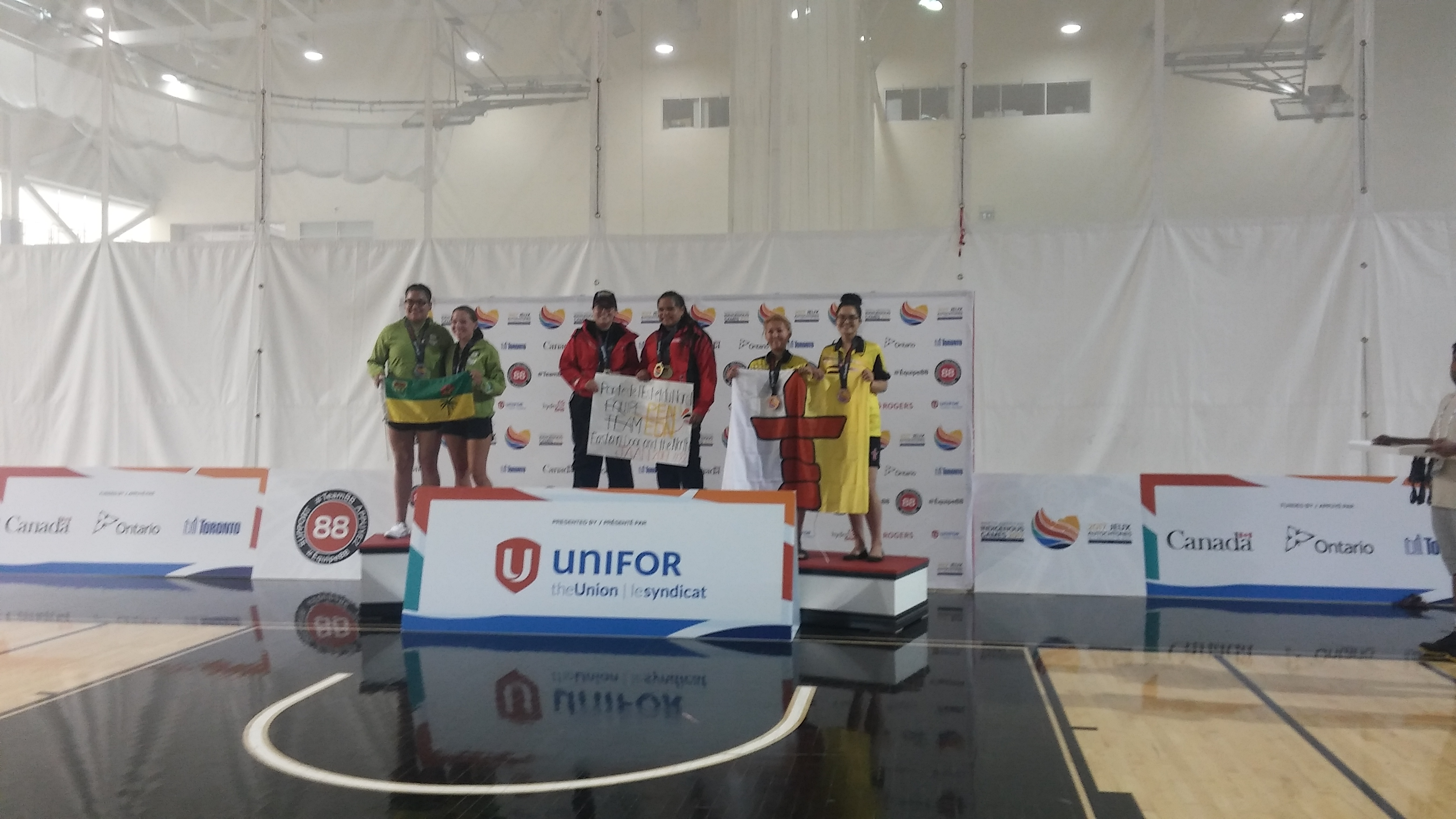 2017 North American Indigenous Games under-19 female doubles badminton medal ceremony at Toronto Pan Am Sports Centre, Toronto